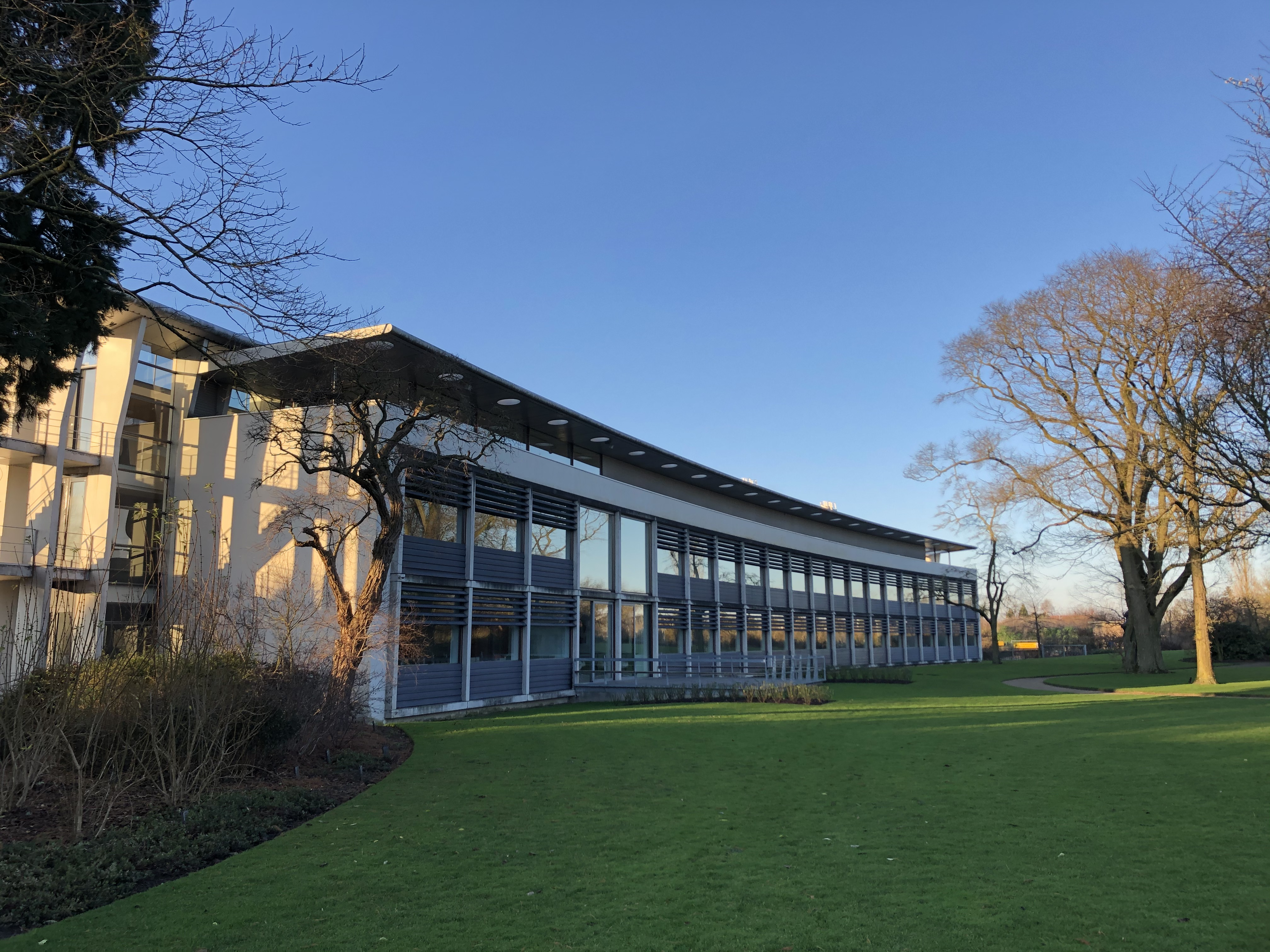 Sculpture museum "Het Depot" in Wageningen, the Netherlands.